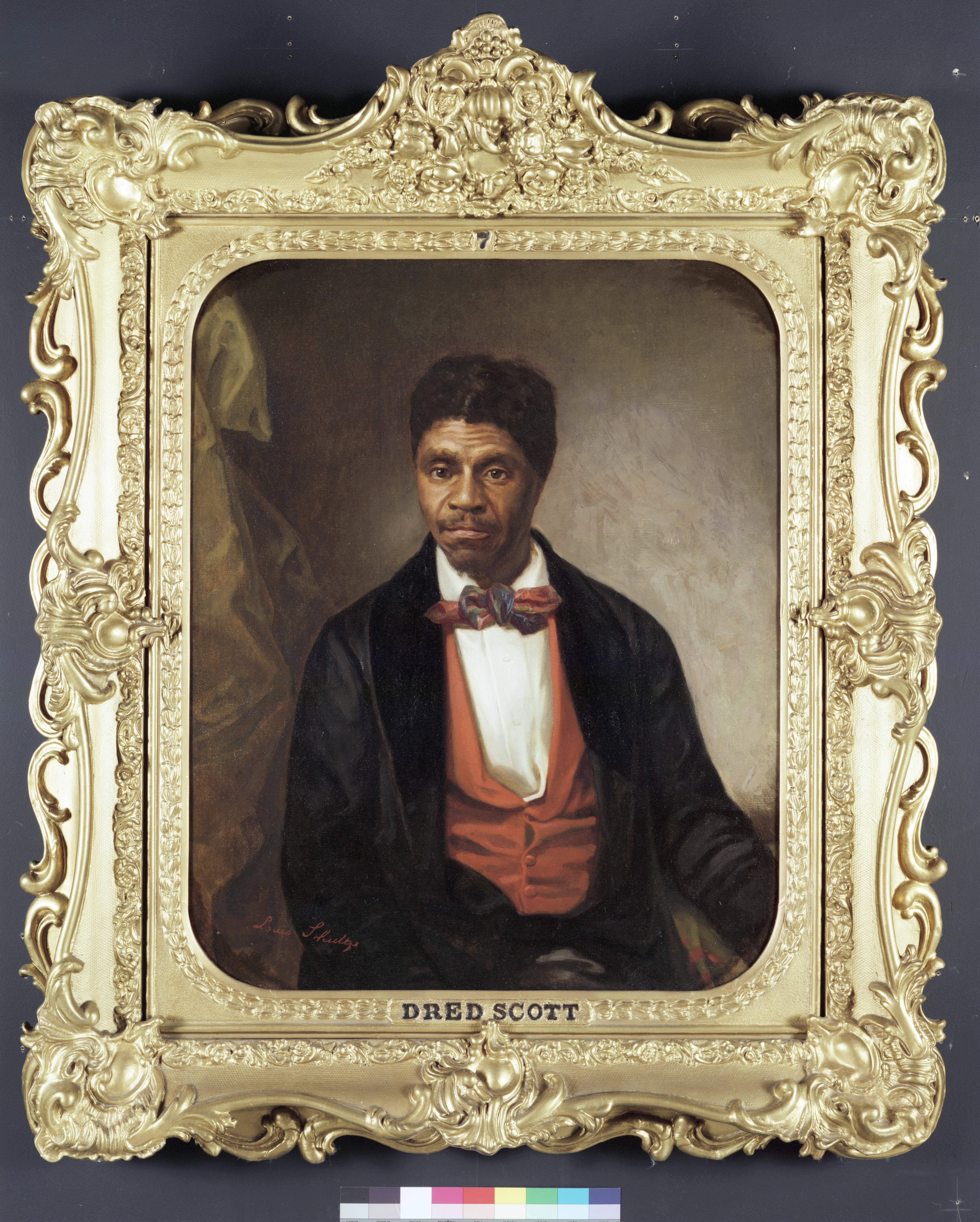 Half-length oil on canvas portrait of Dred Scott by Louis Schultze.Title: Oil on Canvas Portrait of Dred Scott